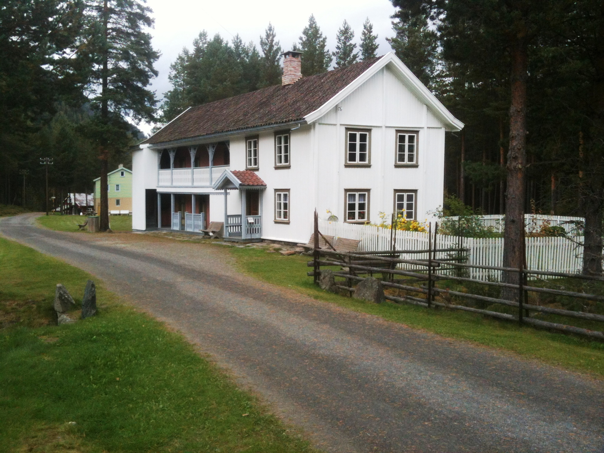 Exhibit at the Norwegian Road Museum (Norsk Veimuseum), by Hunderfossen in Lillehammer, Norway.